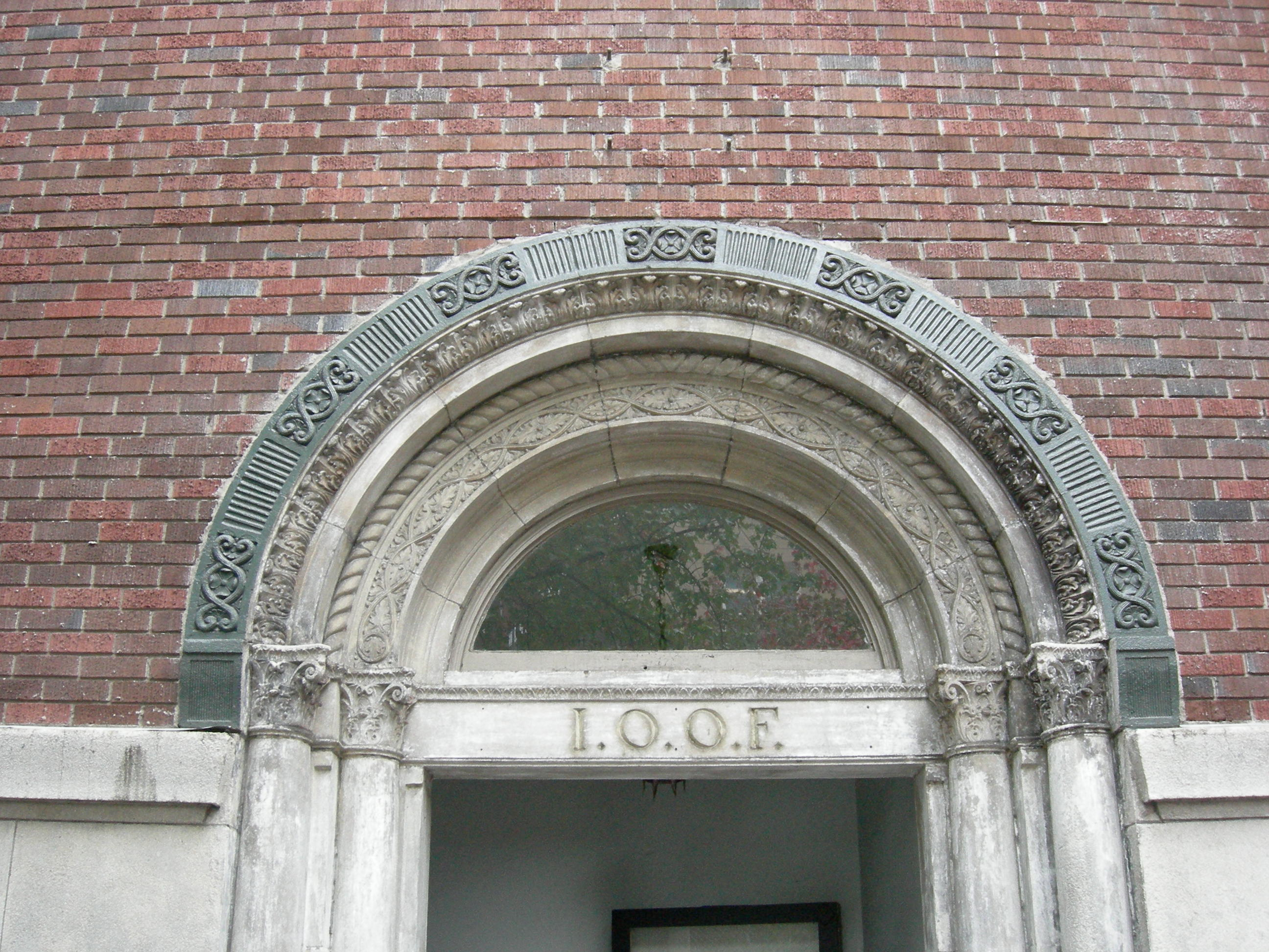 Door of the former Oddfellows Hall, later the Empty Space Theater, Fremont, Seattle, Washington, U.S.